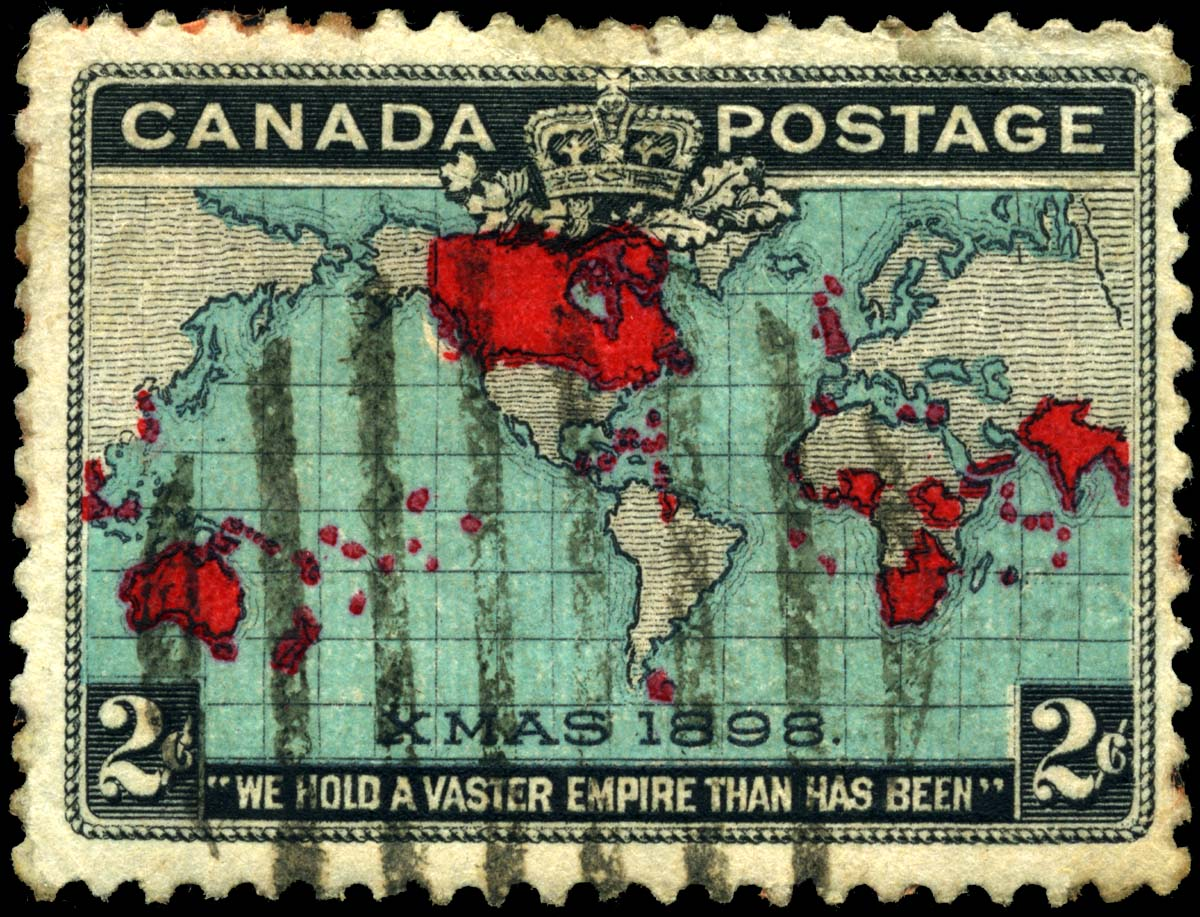 2 cents 1898 Canadian stamp with map of British empire ("We hold a vaster empire than has been"). Canada 2-cent Xmas map stamp of 1898